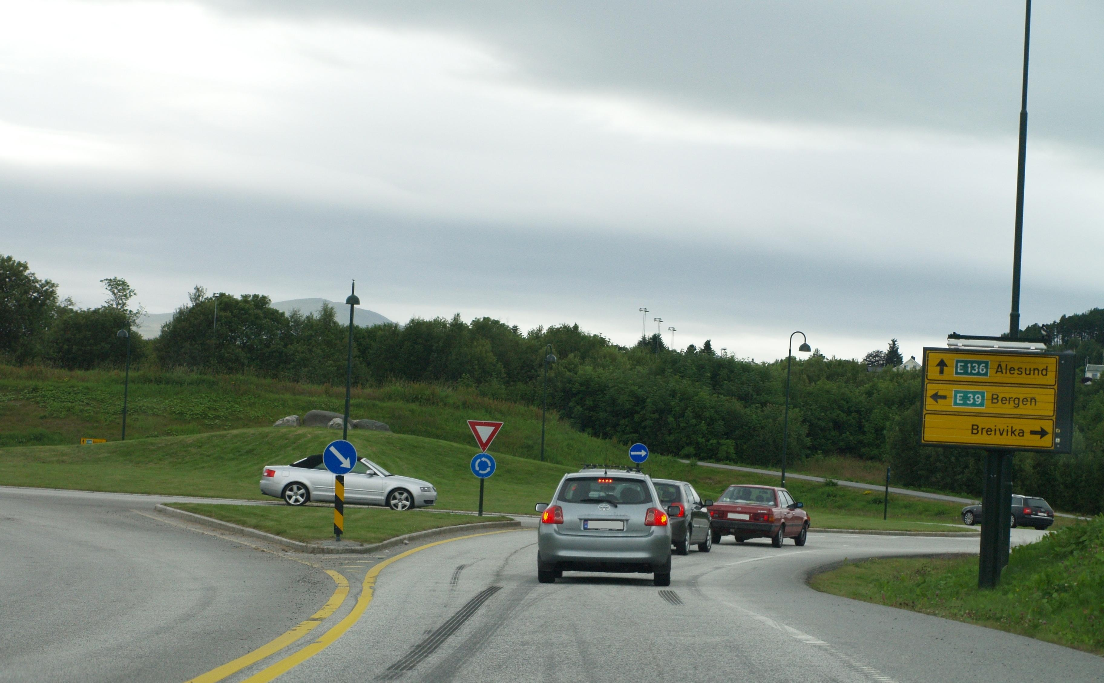 E39/E136 roundabout in Ålesund